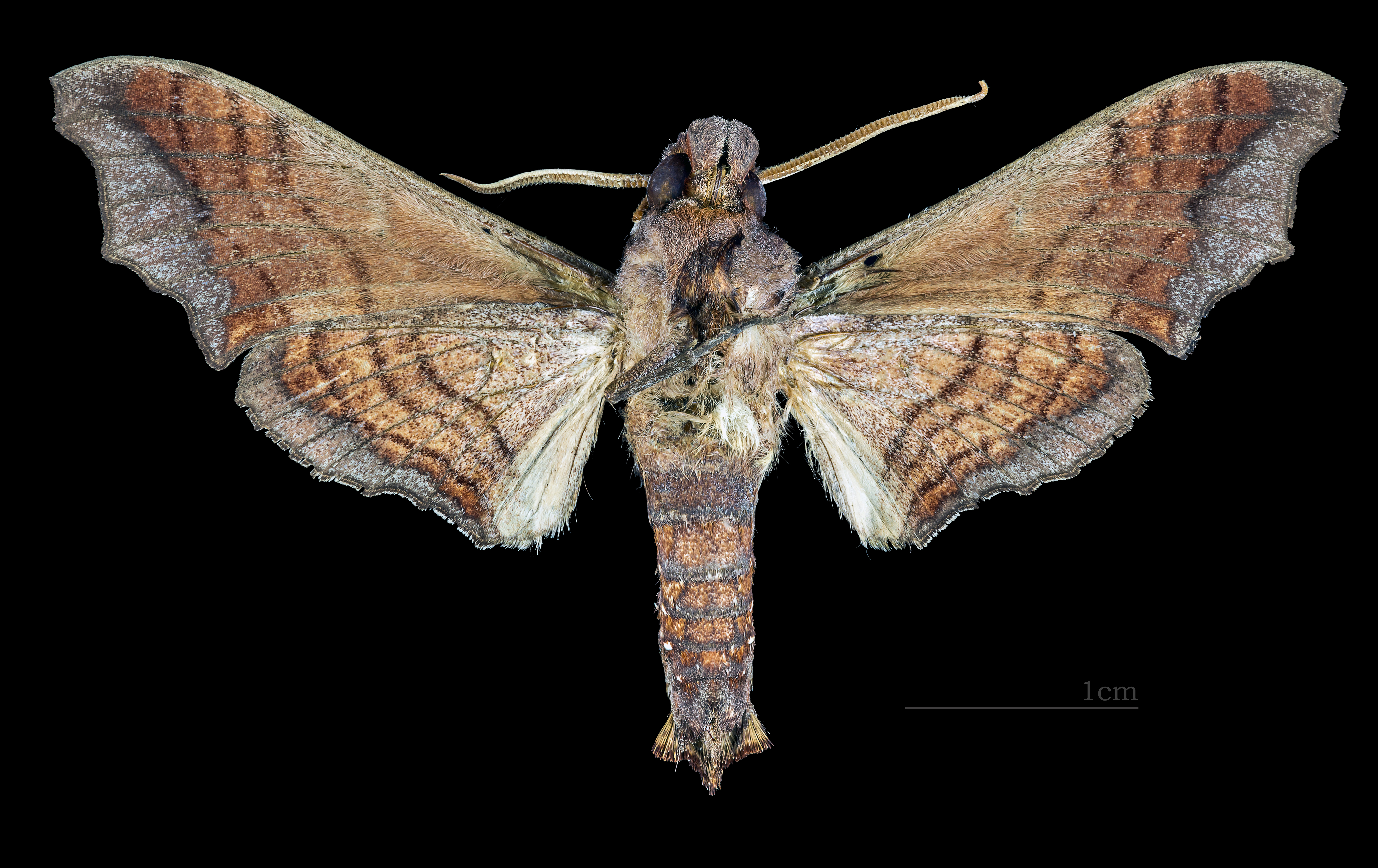 Nyceryx furtadoi - △ Ventral side Paratype Collection of the Mathematician Laurent Schwartz